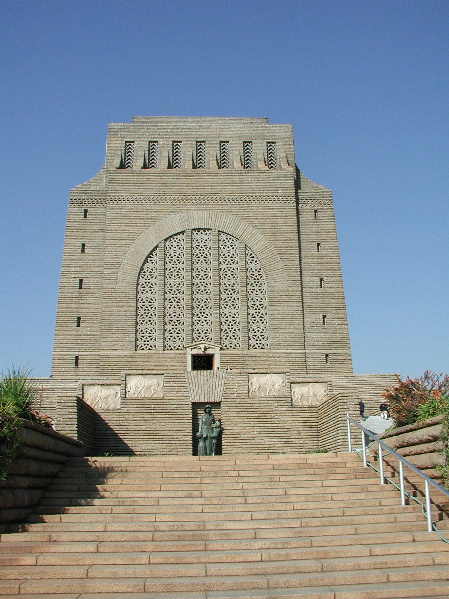 The Voortrekker Monument outside Pretoria was completed in 1949. Inside is a marble frieze containing 27 panels commemorating events of the Great Trek in which farmers of mainly Dutch origin emigrated from the eastern frontier region of the Cape Colony, to the inland regions of the current South Africa, between 1835 and 1854. At the centre of the monument is the cenotaph which bears the inscription "We for thee, South Africa". An opening in the dome atop the monument is positioned so that every year at noon on the 16th of December a beam of sunlight illuminates the cenotaph. Prior to the 1994 elections which heralded a new dispensation, December 16th was celebrated as the "Day of the Vow", commemorating the victory over Zulus forces in the Battle of Blood River; it remains a holiday but is now called "Reconciliation Day". Surrounding the monument is a circular wall with reliefs representing 64 wagons pulled into a circle.